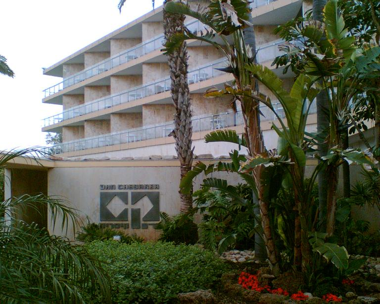 Dan Caesarea hotel, located in Caesarea, Israel